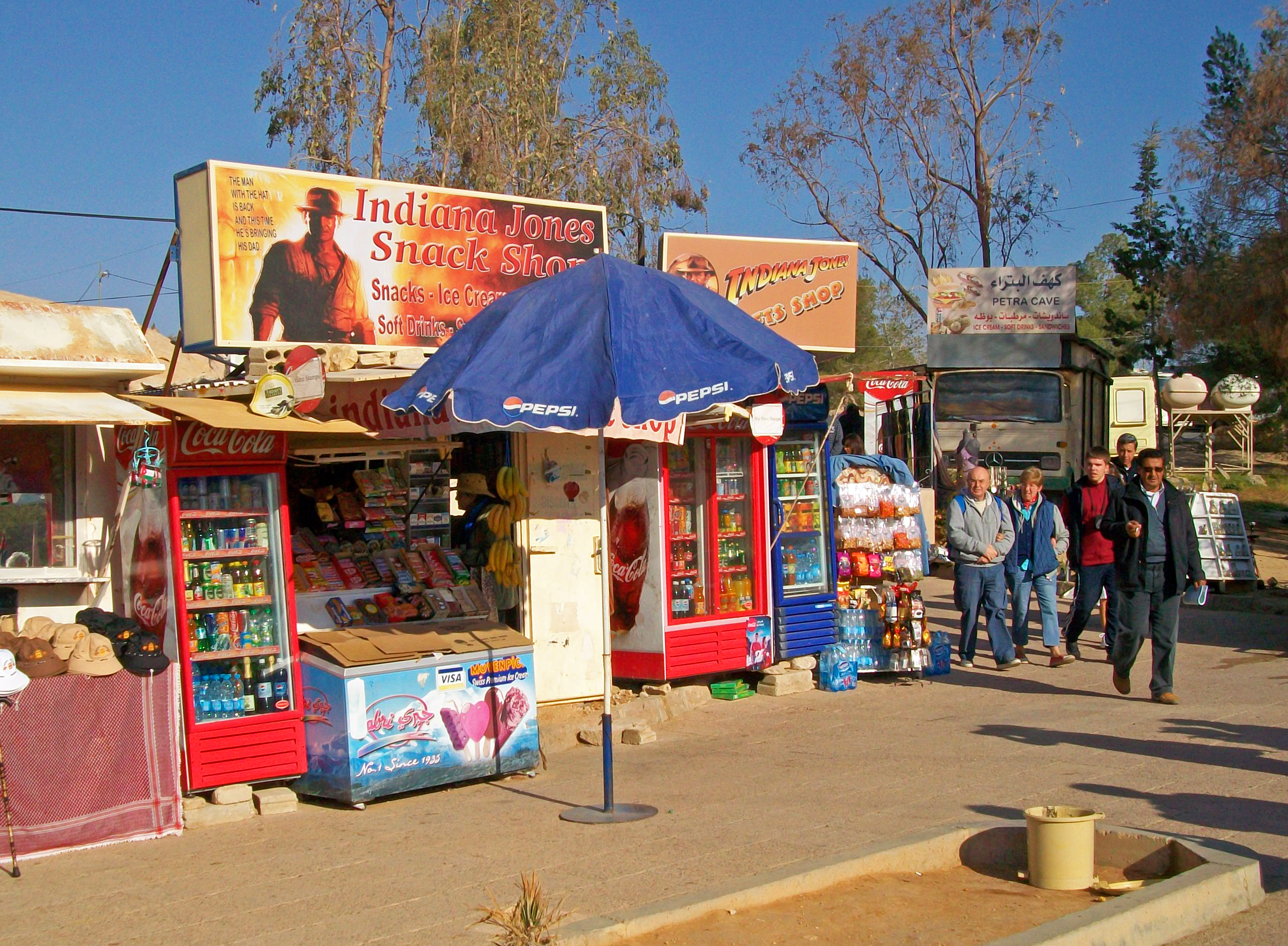 Shops catering to tourists visiting Petra in Jordan with signage invoking the site's use as a location in Indiana Jones and the Last Crusade.